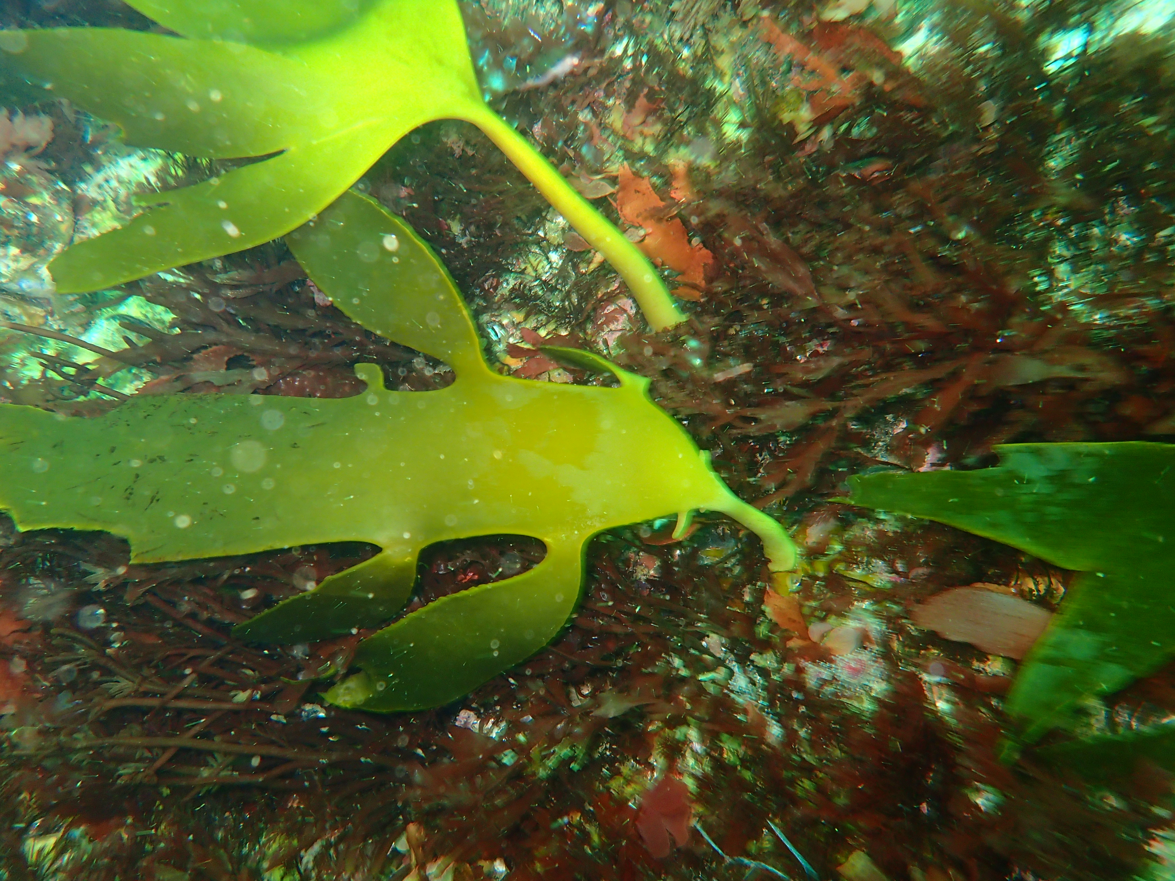 Two species of kelp at Duiker point